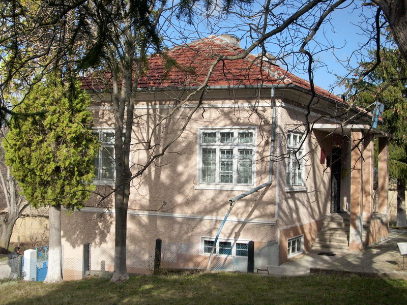 The mayor's office of village Zvezda, Popovo Municipality, Targovishte District, Bulgaria